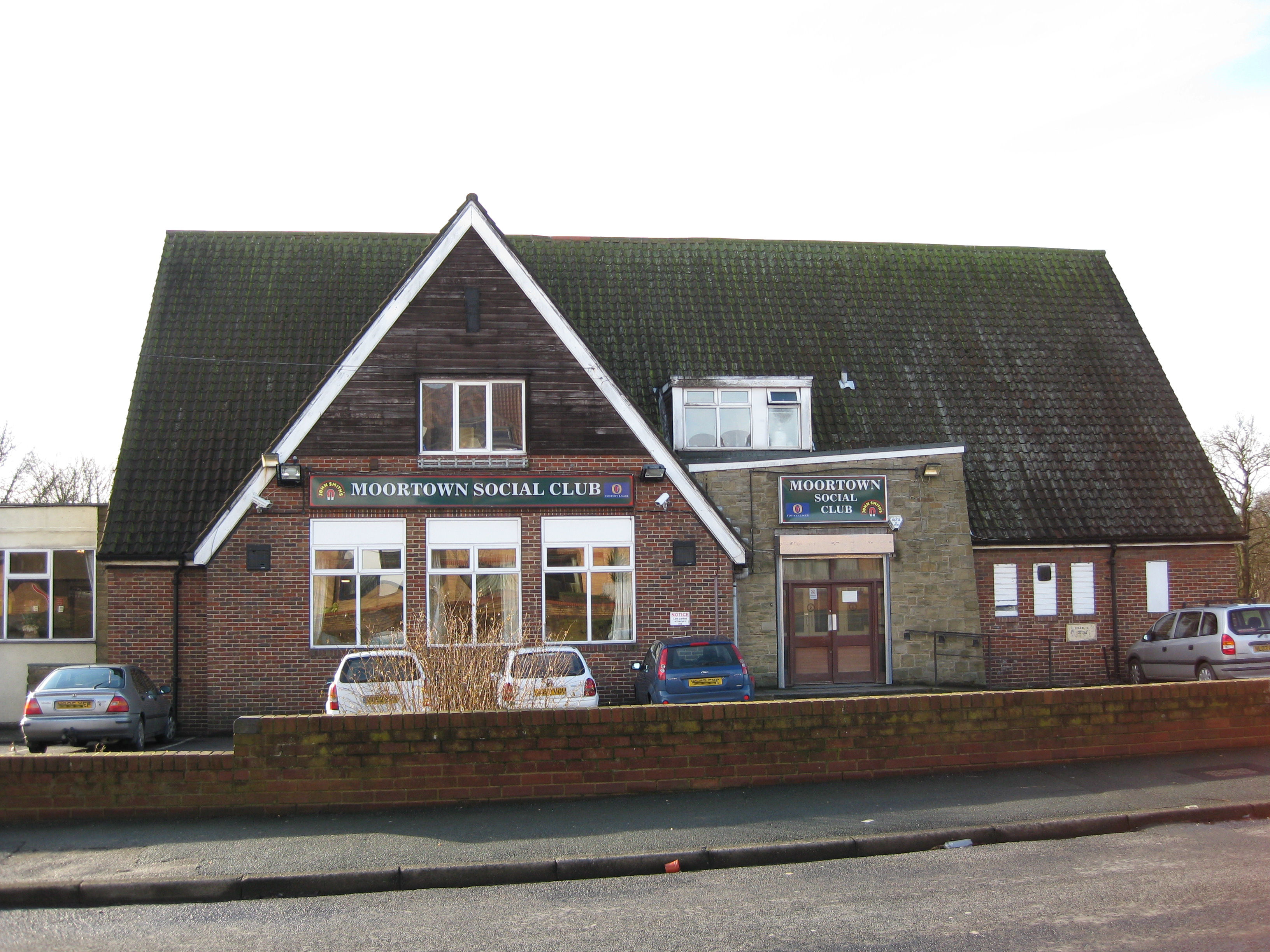 Moortown Social Club, Cranmer Gardens, Leeds LS17 5LA